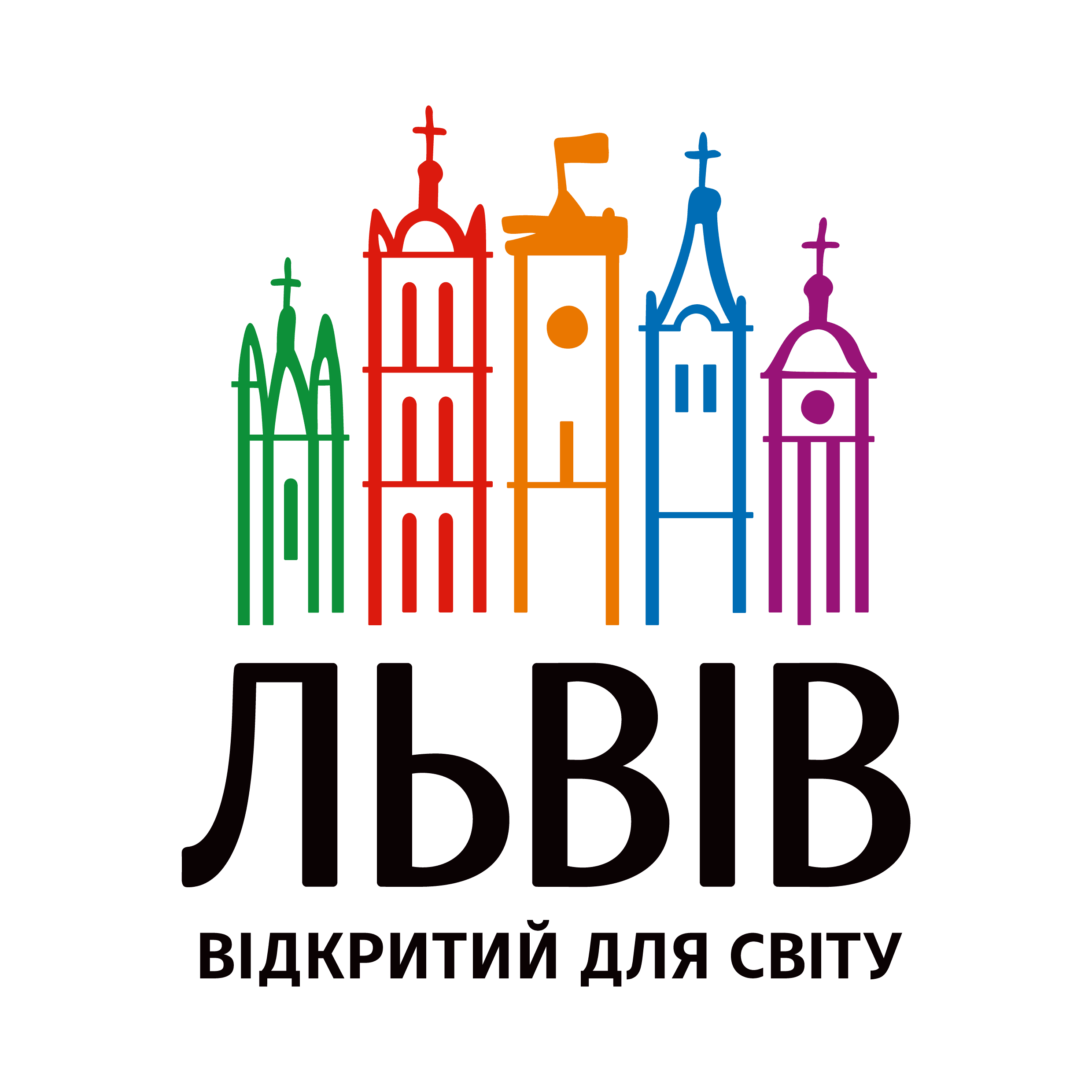 Logo of Lviv